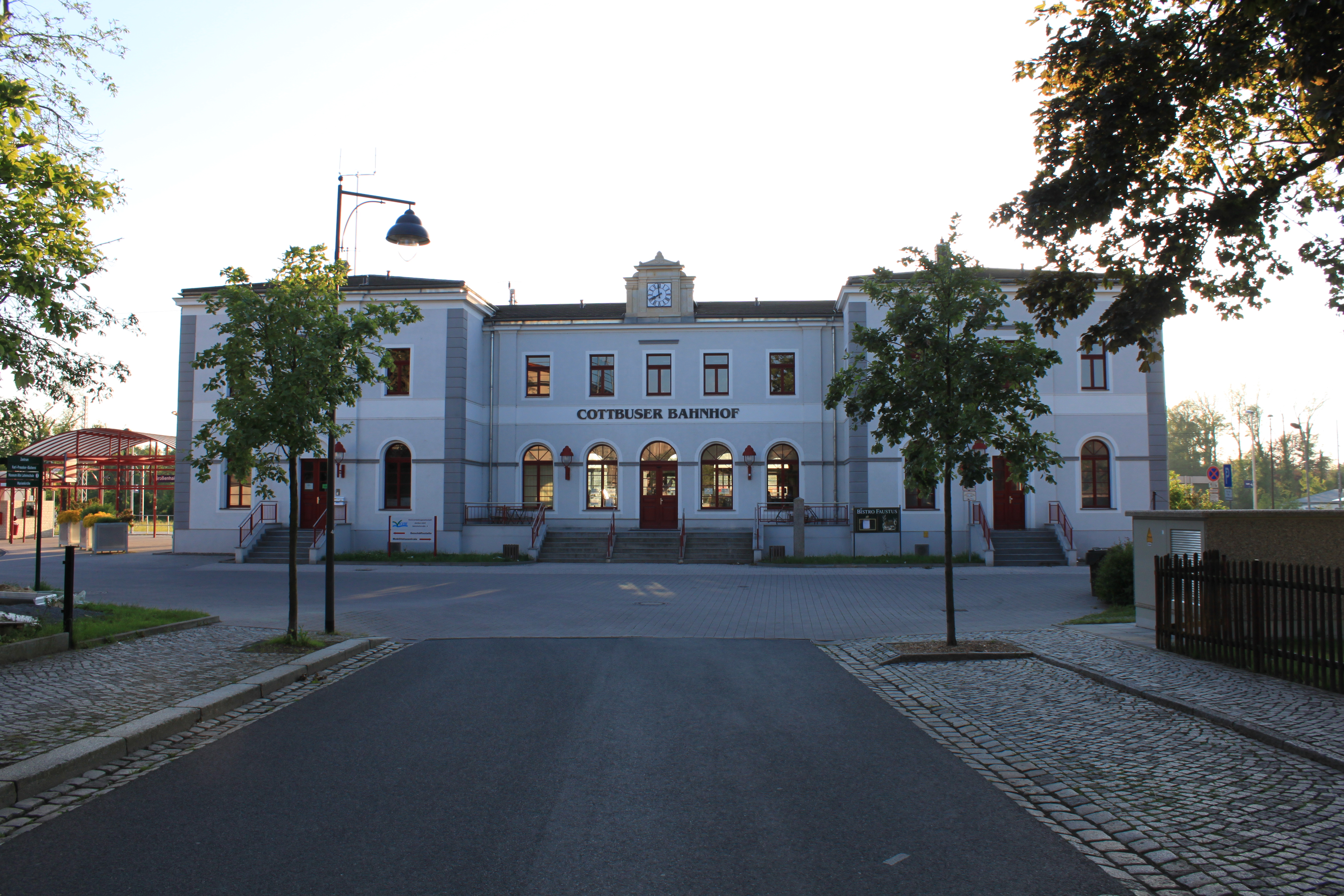 Trainstation Großenhain